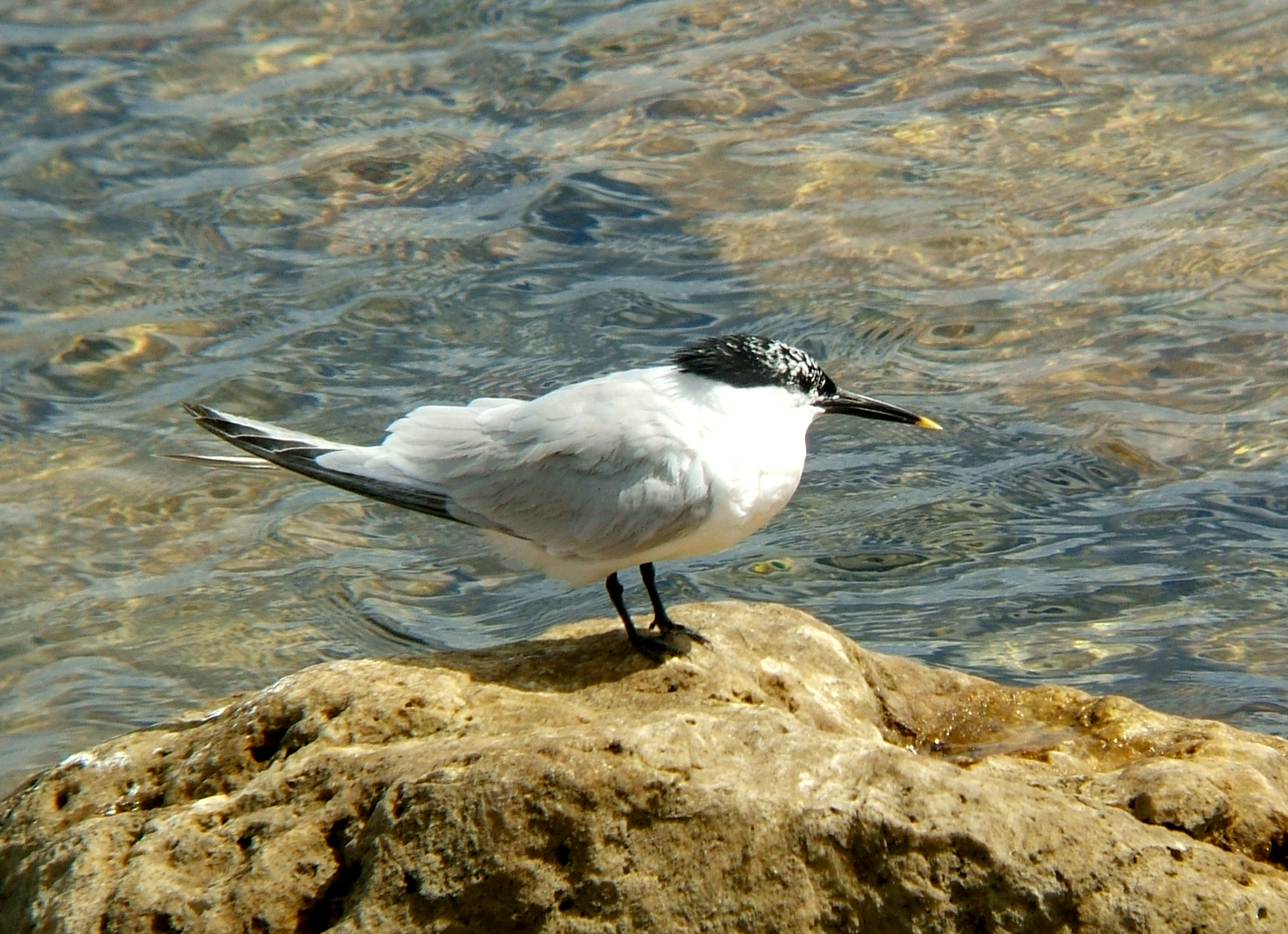 Sandwich Tern Thalasseus sandvicensis adult moulting from summer into winter plumage. St. Mary's Island, Northumberland, UK.